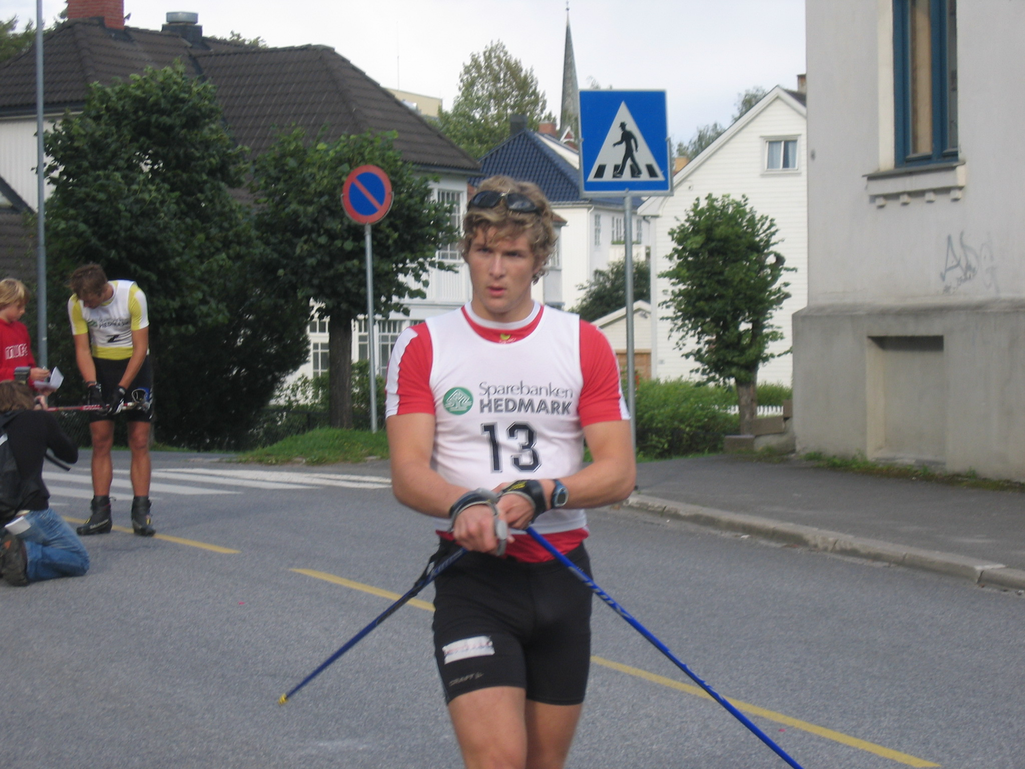 The Norwegian cross-country skier Magnus Frodahl under Kirkebakken Grand Prix 2007 in Hamar, Norway.